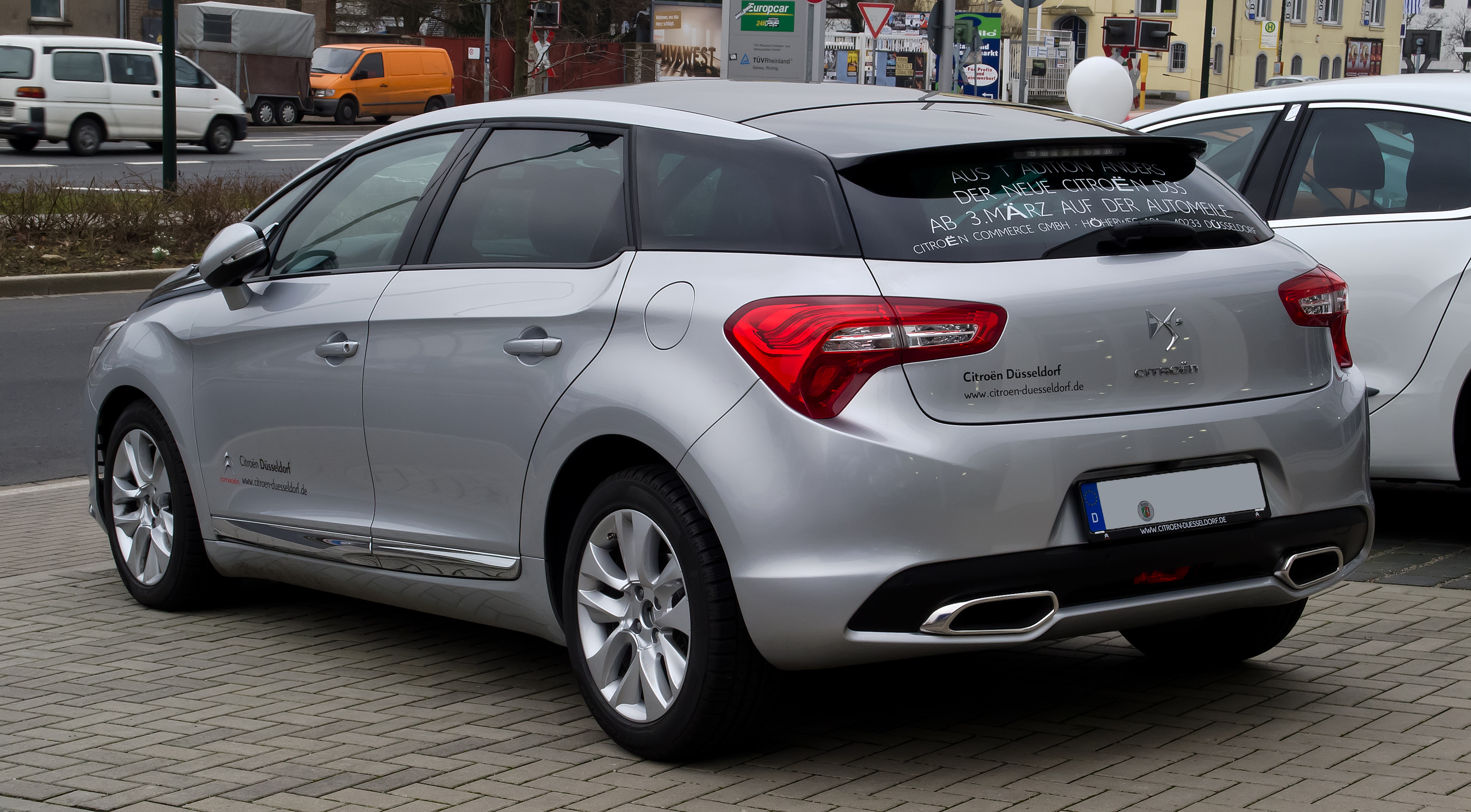 Citroën DS5 HDi 165 SoChic